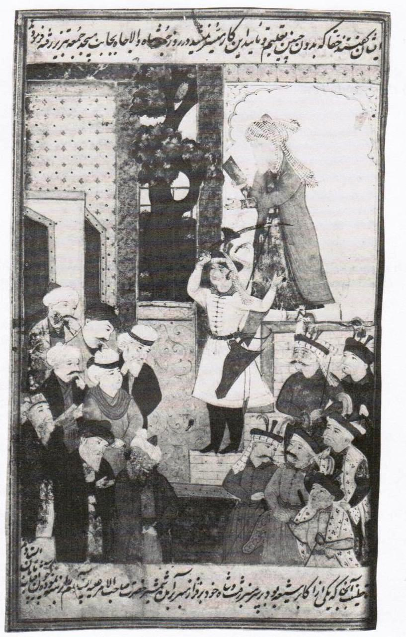 The declaration of Shi'ism as the state religion of Iran in 1501 by Shah Ismail - Safavids dynasty The caption reads "On Friday, the exalted king went to the congregational mosque of Tabriz and ordered its preacher, who was one of the Shi'ite dignitaries, to mount the pulpit. The king himself proceeded to the front of the pulpit, unsheathed the sword of the Lord of Time, may peace be upon him, and stood there like the shining sum"